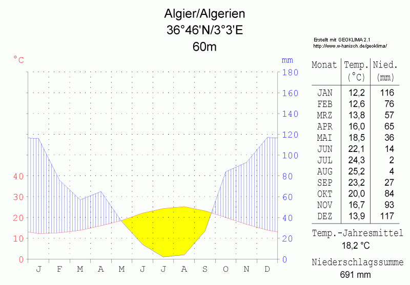 climate chart in the format by Walther and Lieth